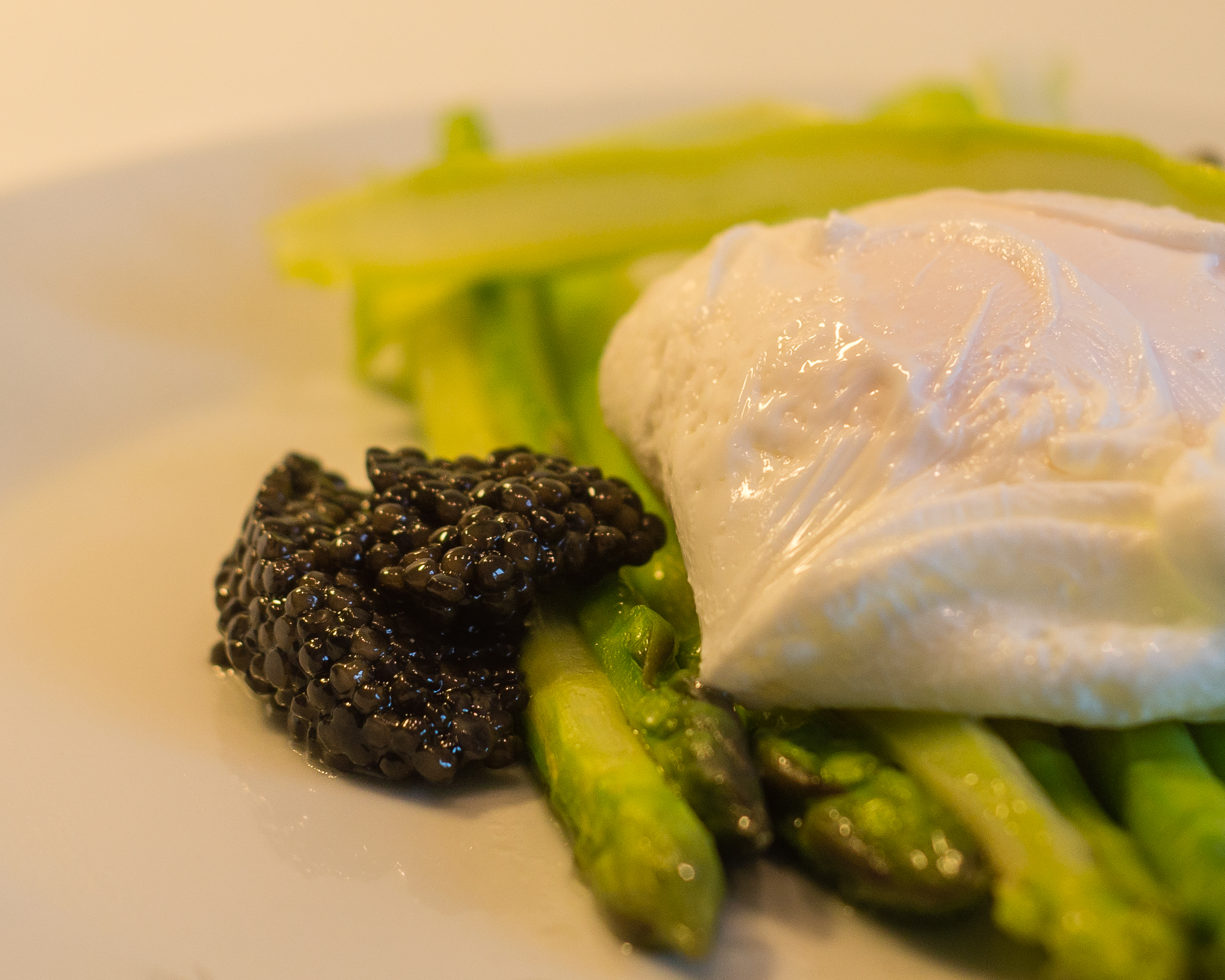 Poached egg served with green asparagus and caviar from Uruguay.